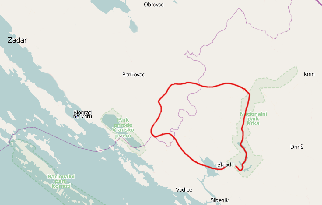 borders of former Skradin diocese (in 18th and 19th century) in Northern Dalmatia, Croatia, according to Bačić, fra Stanko; 1991., Visovački franjevci u skradinskoj biskupiji